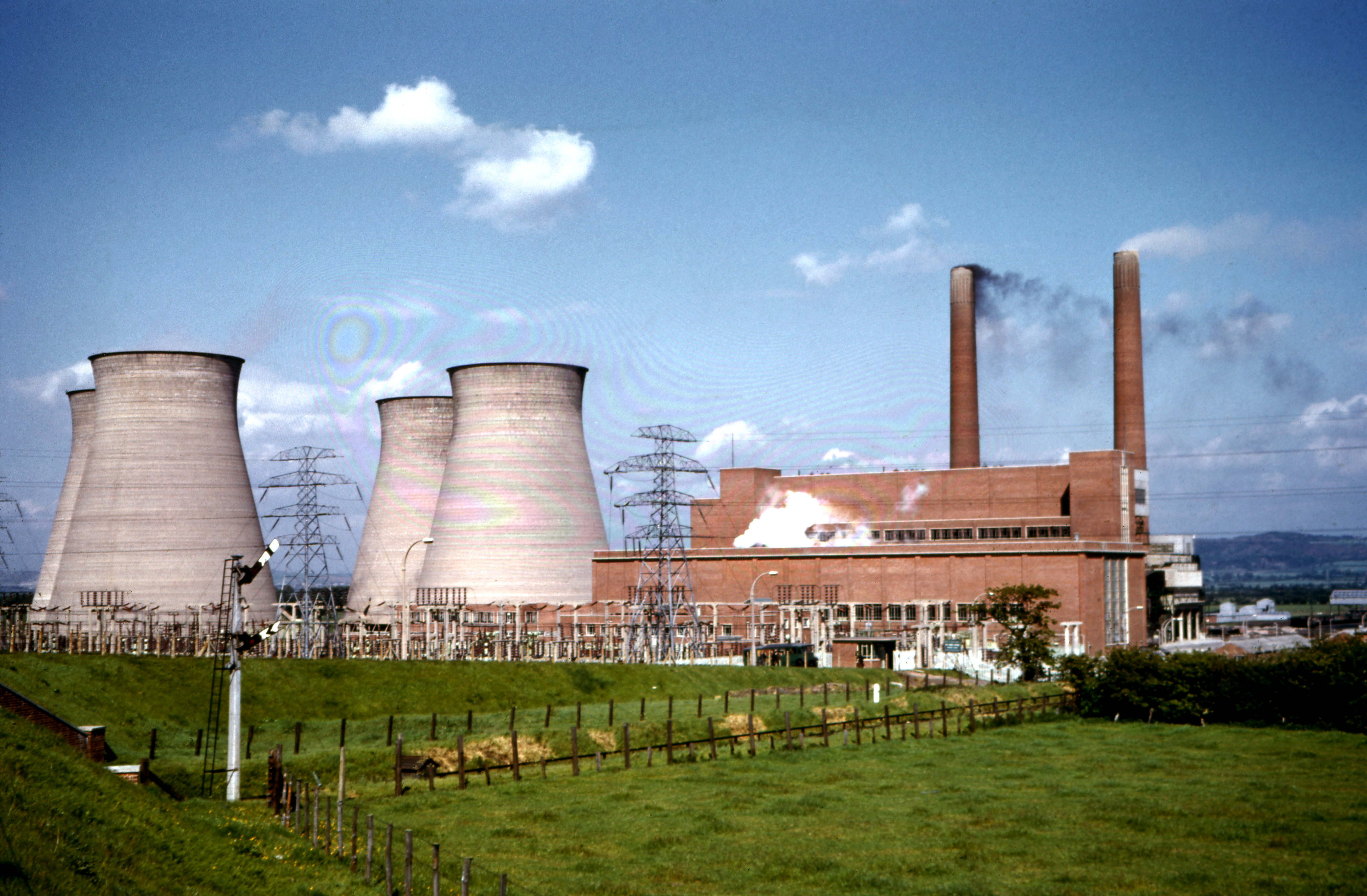 A general view of Ince A power station.